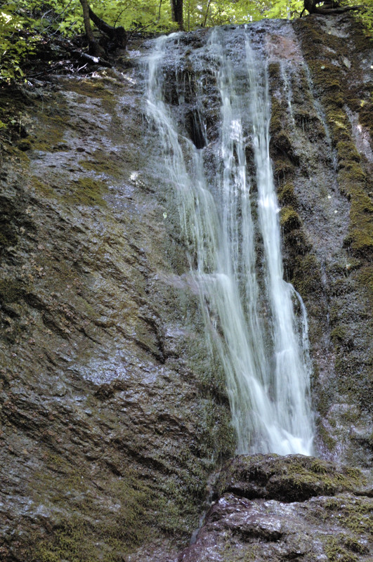 Hlbočiansky waterfall in summer